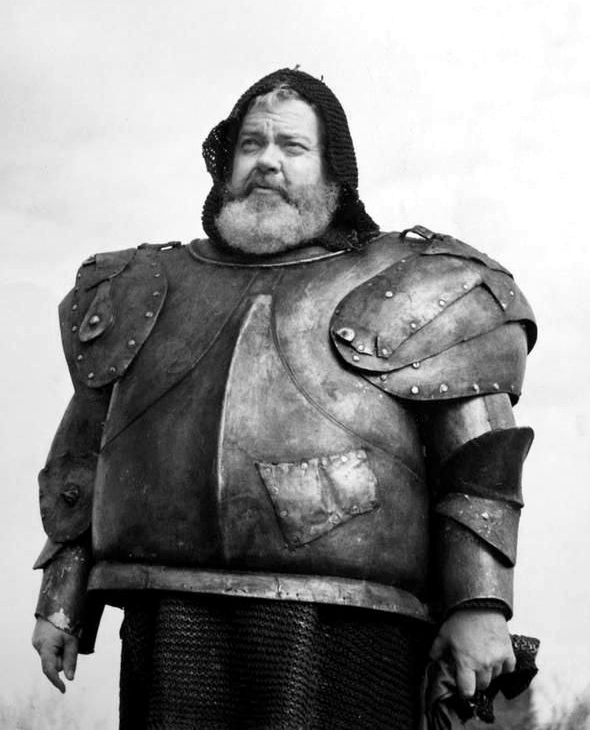 Promotional photo of Orson Welles as Falstaff in Chimes at Midnight